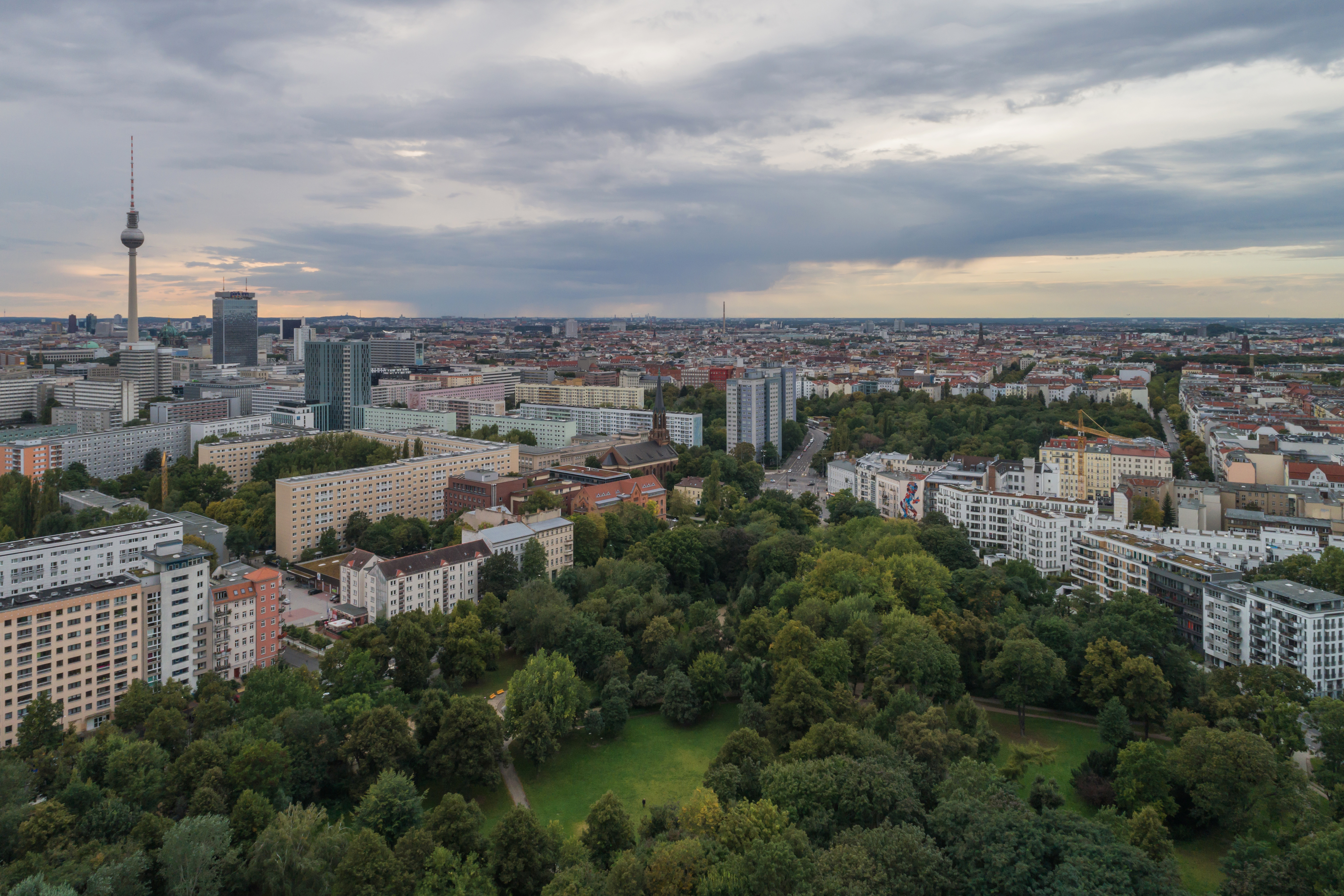 Aerial photo of Friedrichshain Park in Berlin (Germany)